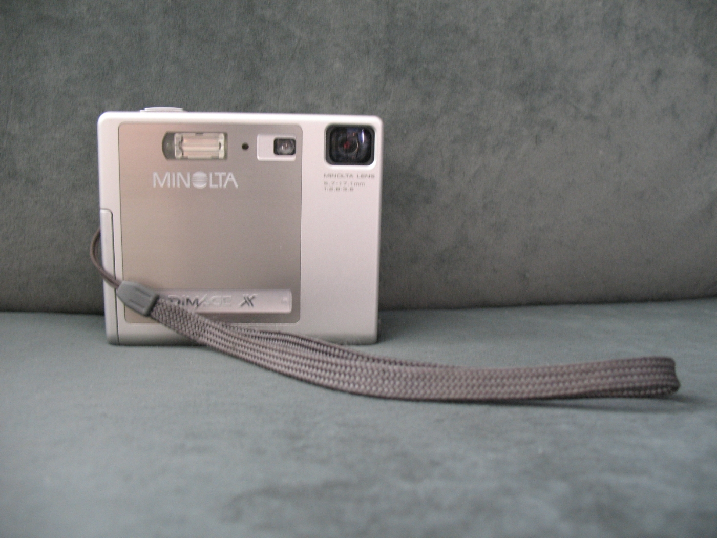 A Dimage X digital camera by Minolta from 2002. In 2003 this camera has been rebranded as "Konica Minolta Dimage X".